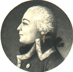 Republican General François-Joseph Westermann (1751-1794), the "butcher of Vendée"